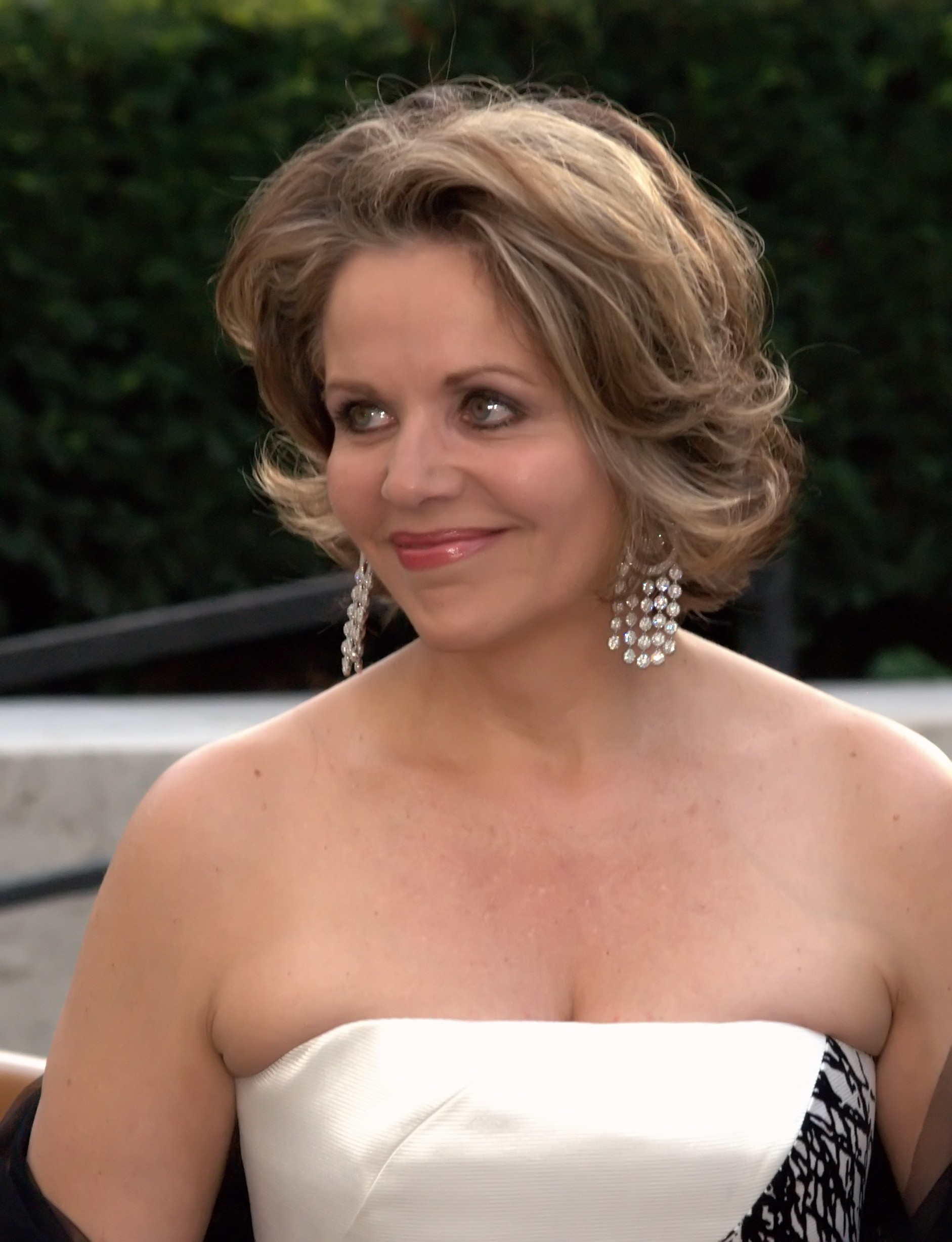 Renée Fleming at the 2009 premiere of the Metropolitan Opera in New York City. Photographer's blog post about event and photograph.